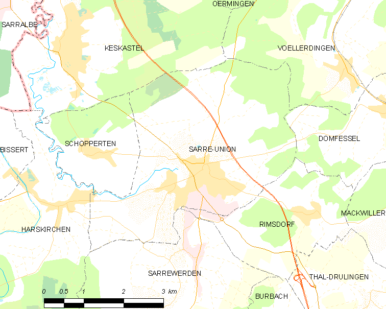 Map of French municipality